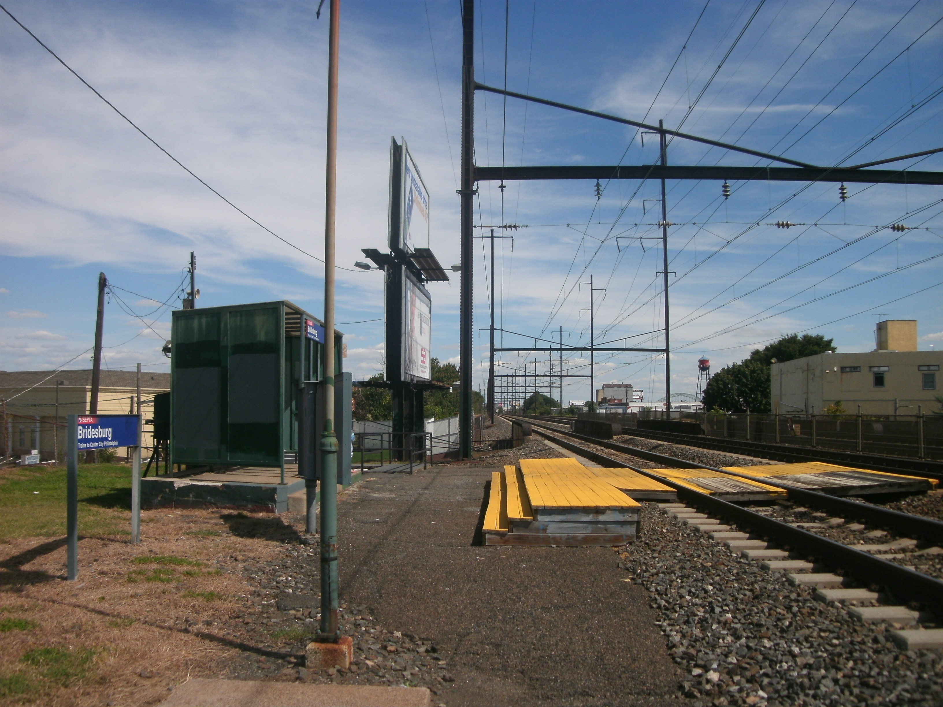 The Bridesburg SEPTA station in the northern reaches of Philadelphia, Pennsylvania.